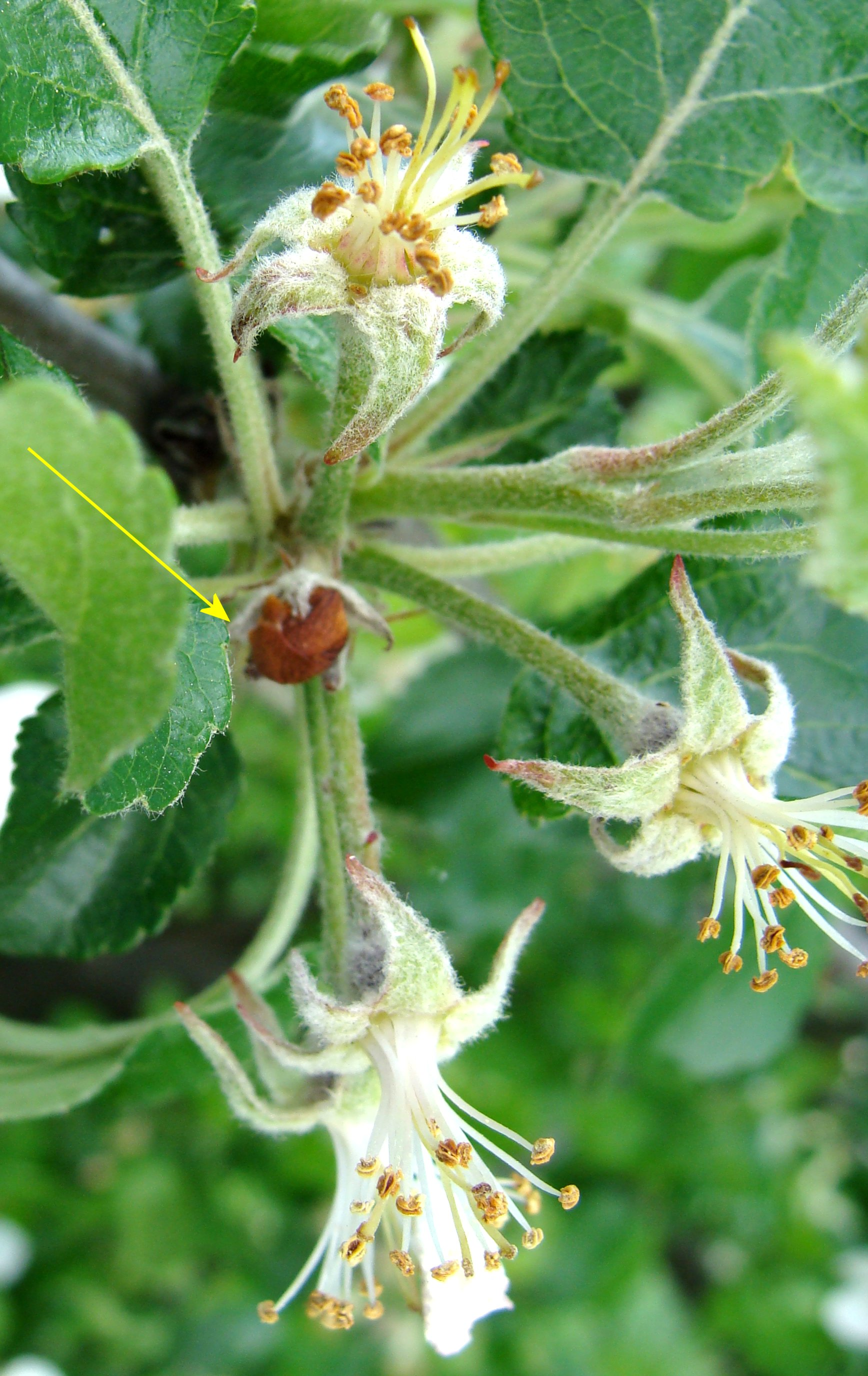 Anthonomus pomorum or Anthonomus cinctus